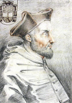 Dionisio Laurerio